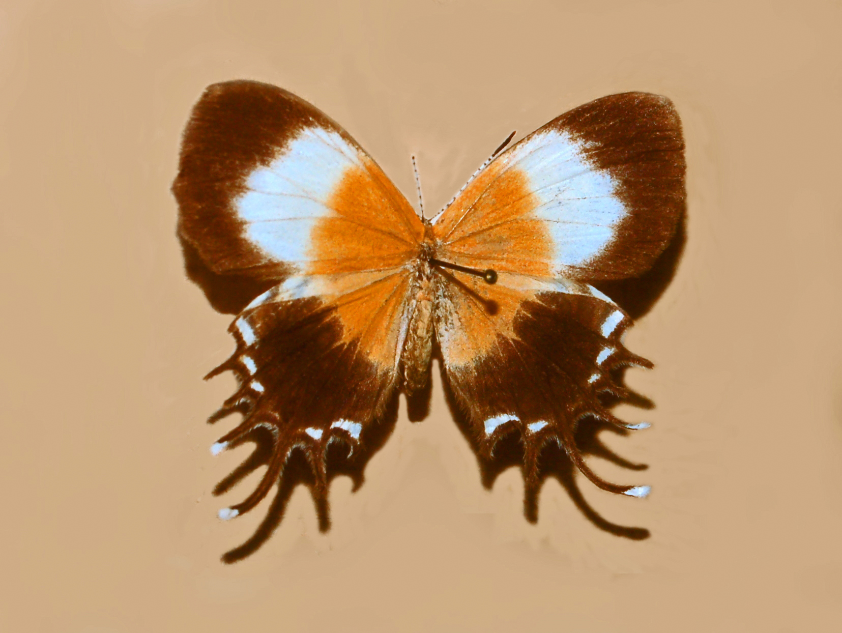 Helicopis gnidus from Brazil. Mounted specimen